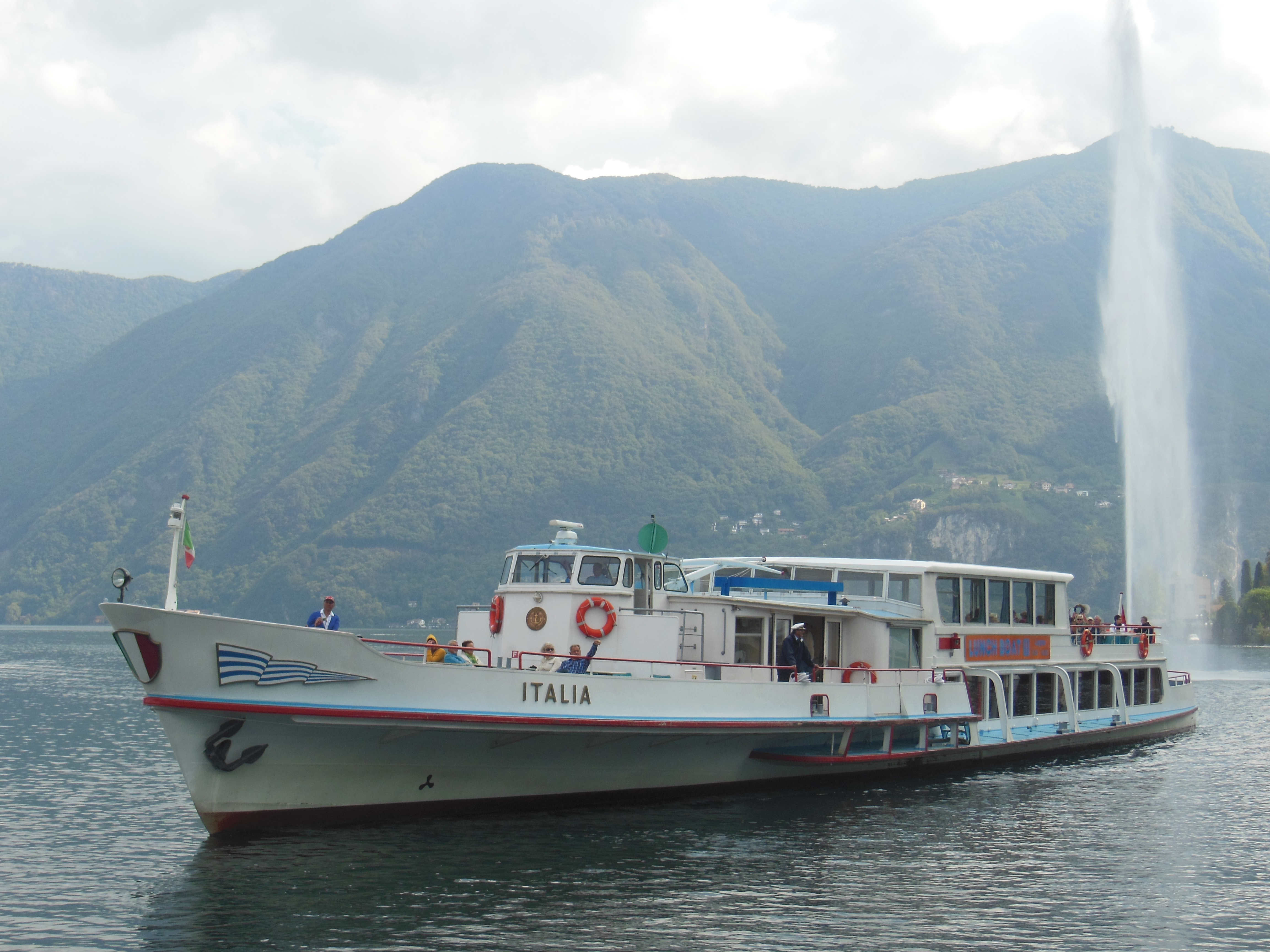 The MV Italia' of the Società Navigazione del Lago di Lugano, passing the fountain offshore of Paradiso. For more information, see wikipedia article Società Navigazione del Lago di Lugano.